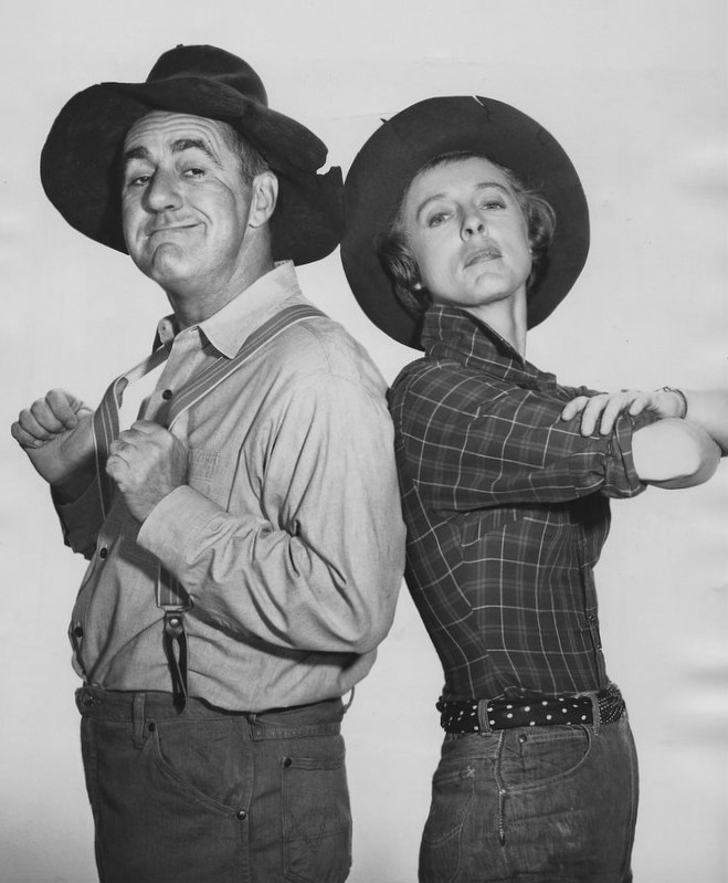 Publicity photo of guest star Jim Backus and Nancy Kulp from the television program The Beverly Hillbillies. In this episode, Backus plays the Chairman of the board of Mr. Drysdale's bank.